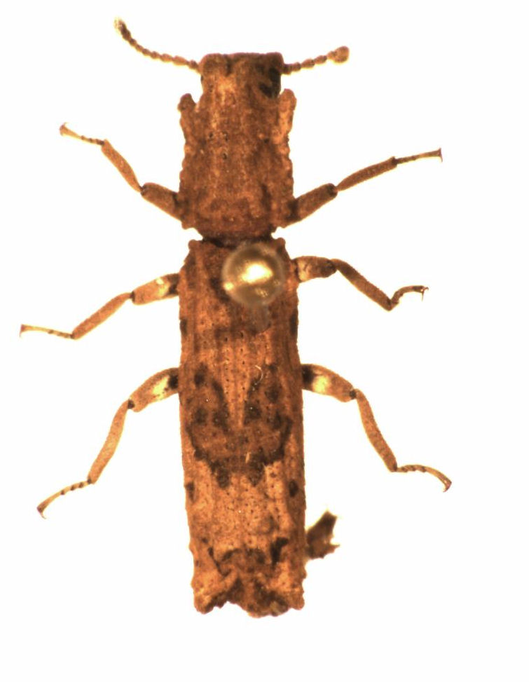 adult Rytinotus squamulosus